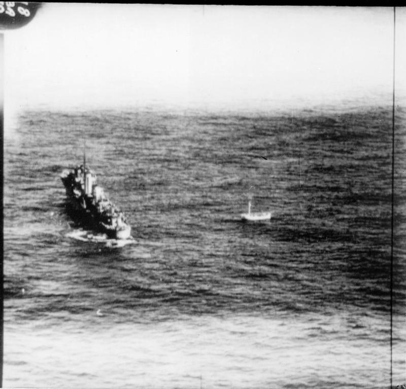 The Battle of the Atlantic, 1939-1945 Royal Navy destroyer HMS ANTHONY rescues survivors from a lifeboat from the SS CITY OF BENARES which had been been adrift for nine days after the ship sank on 17 September 1940. The CITY OF BENARES was evacuating children from Britain to Canada under the auspices of the Children's Overseas Reception Board [CORB] as part of Convoy OB 213 when it was torpedoed and sunk with heavy loss of life in the Atlantic by the German submarine U-48. The sinking became one of the most notorious events of the Second World War.